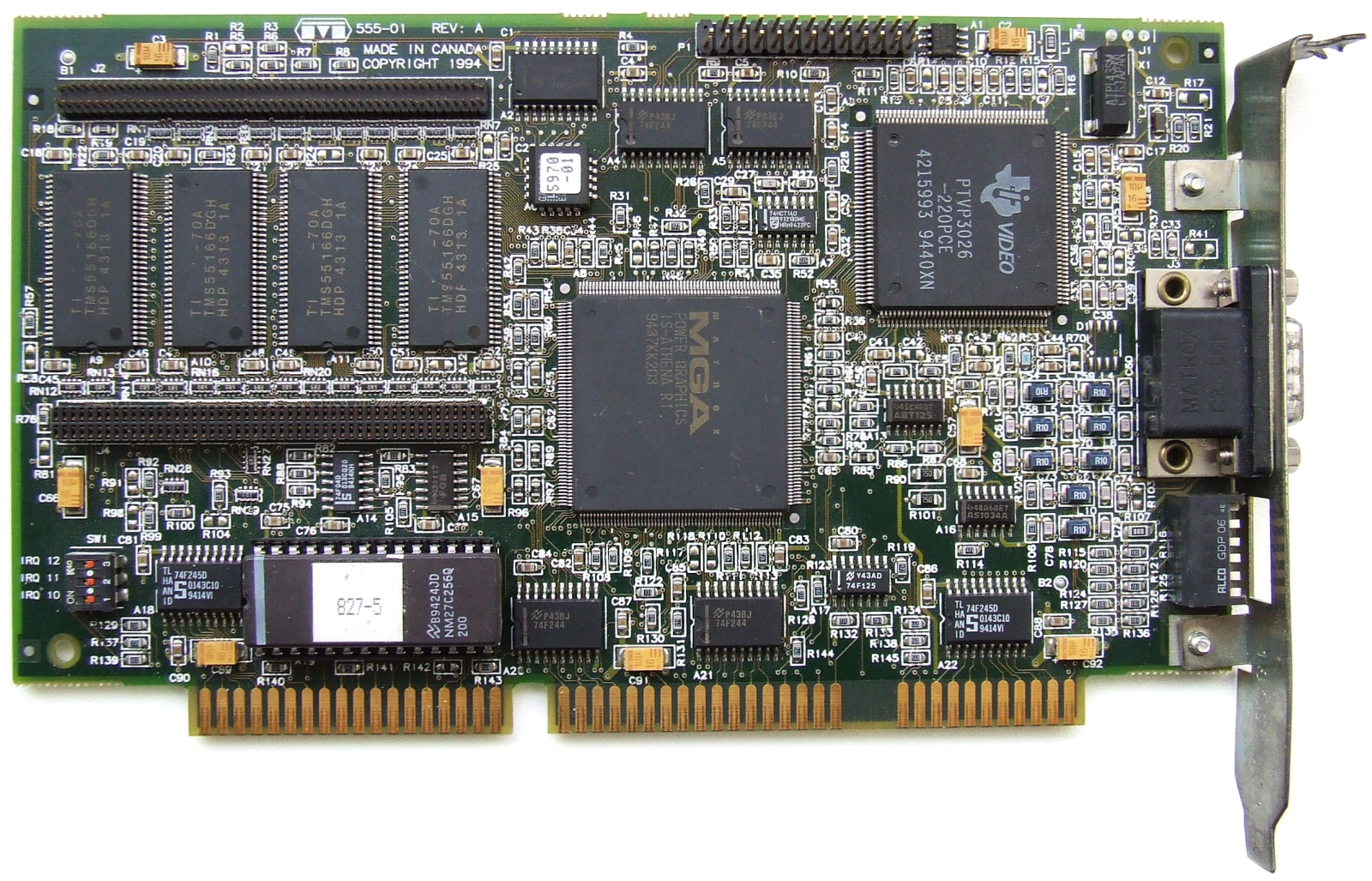 Matrox Impression Plus 220 ISA (MGA-IMP+/A/220) video card, PCB revision 555-01A. It is based on the IS-ATHENA R1 graphics processing unit and equipped with 2 MB of VRAM.